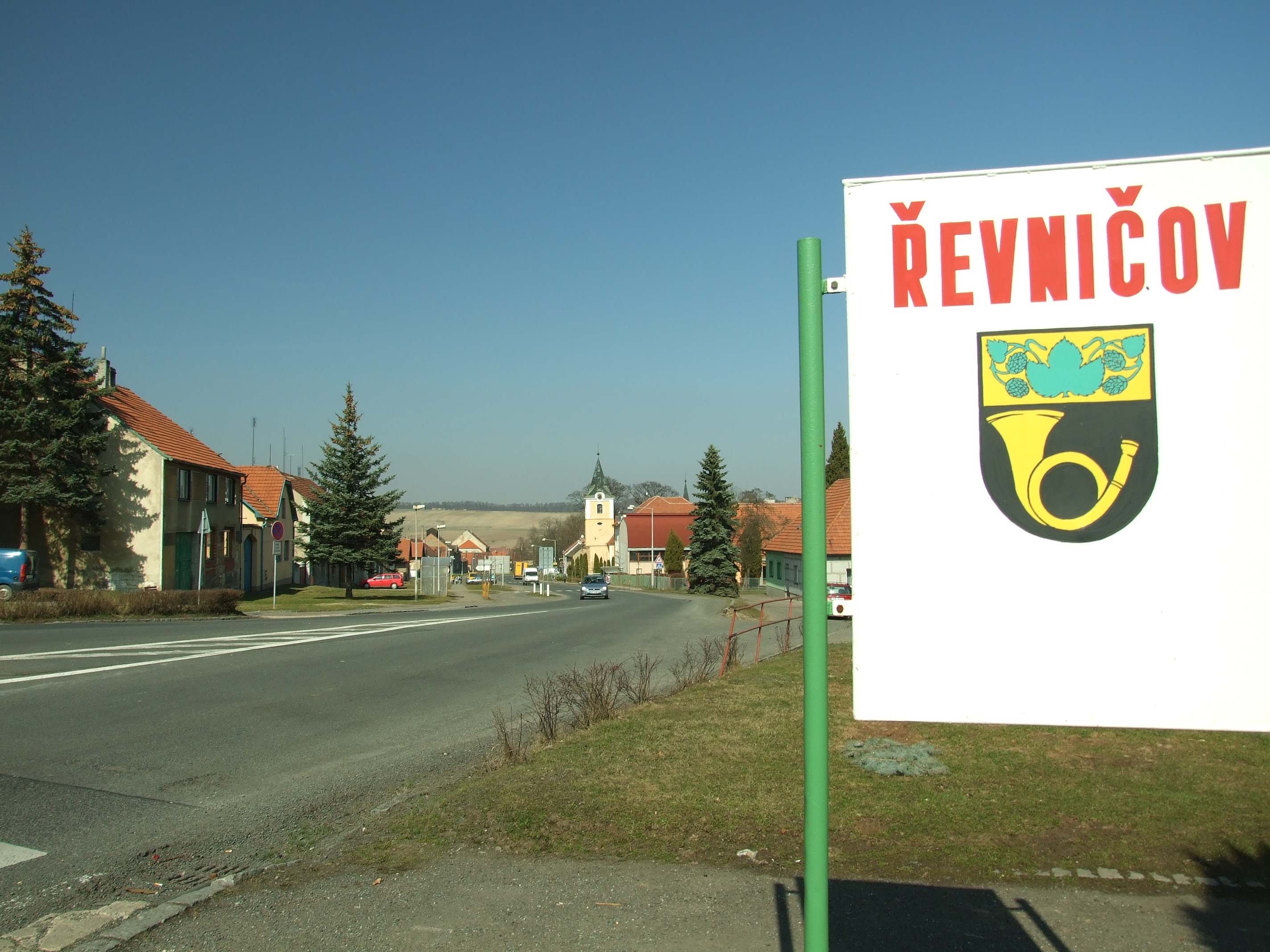 A road in Řevničov, Rakovník District. Central Bohemian Region, CZ